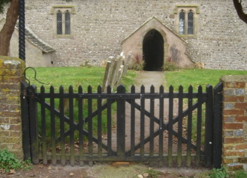 The "Tapsel gate" in the churchyard of the Church of the Transfiguration, Pyecombe, West Sussex, England. These gates are unique to Sussex, where six remain. This is a modern (early 20th-century) replacement of the original late 18th-century gate at this location.